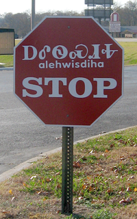 Traffic sign in Cherokee syllabary, Tahlequah, Oklahoma, shot 11 November 2007.